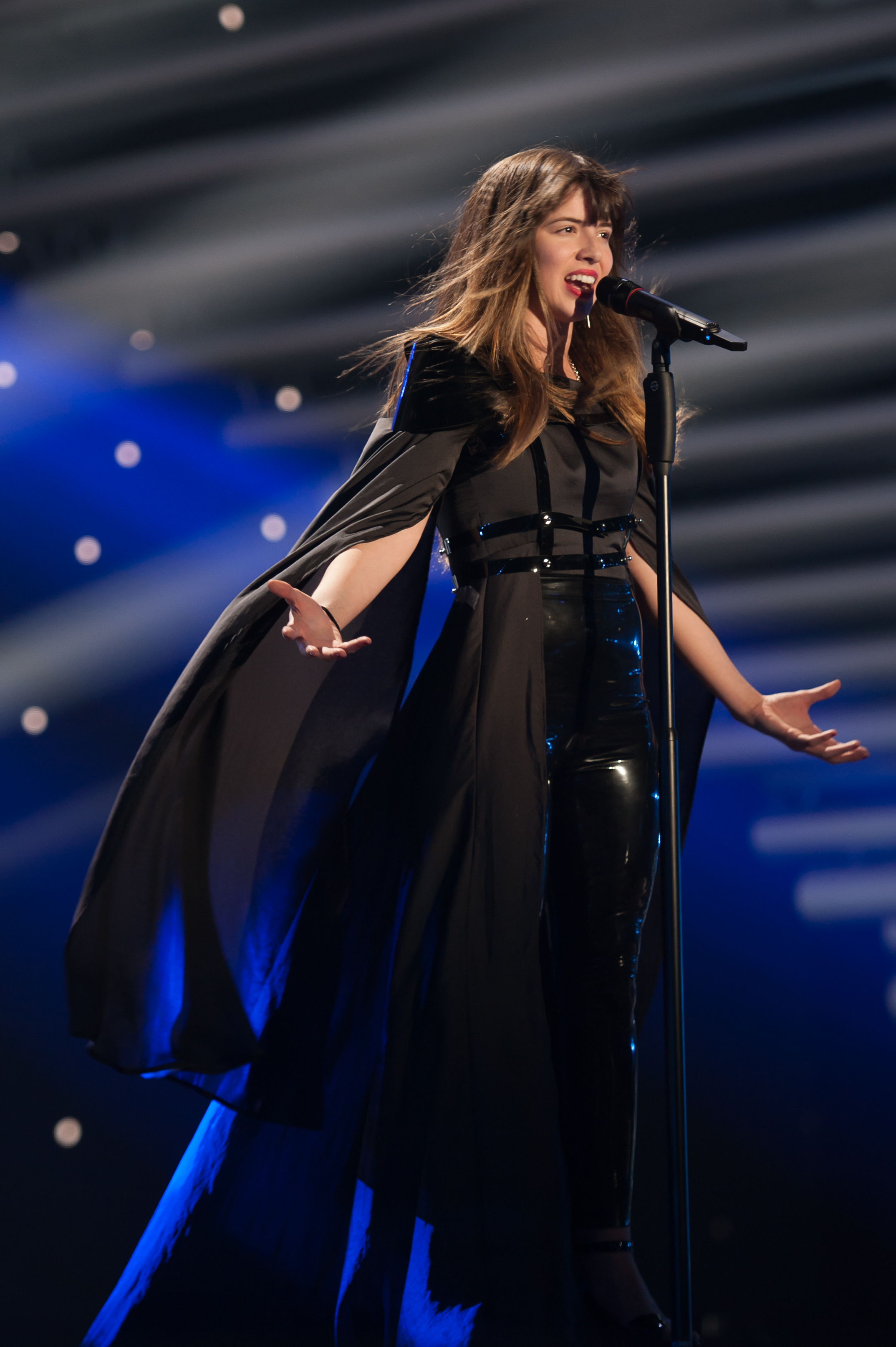 Eurovision Song Contest Vienna 2015: Leonor Andrade